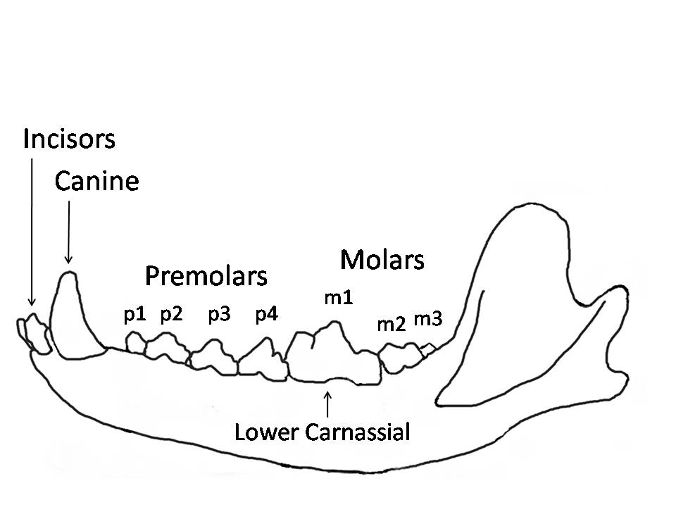 Wolf mandible diagram showing the names and positions of the teeth. The dental notation for the upper-jaw teeth uses the upper-case letters I to denote incisors, C for canines, P for premolars, and M for molars, and the lower-case letters i, c, p and m to denote the mandible teeth. Teeth are numbered using one side of the mouth and from the front of the mouth to the back.